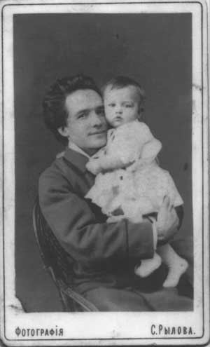 Alexandr Turchevich with his son Boris in 1886